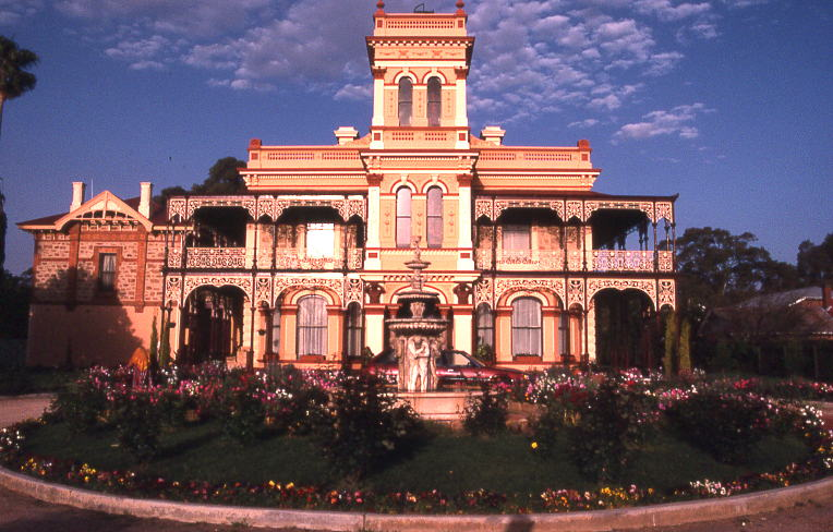 Eynesbury house, Adelaide, South Australia - Belair Road, Kingswood